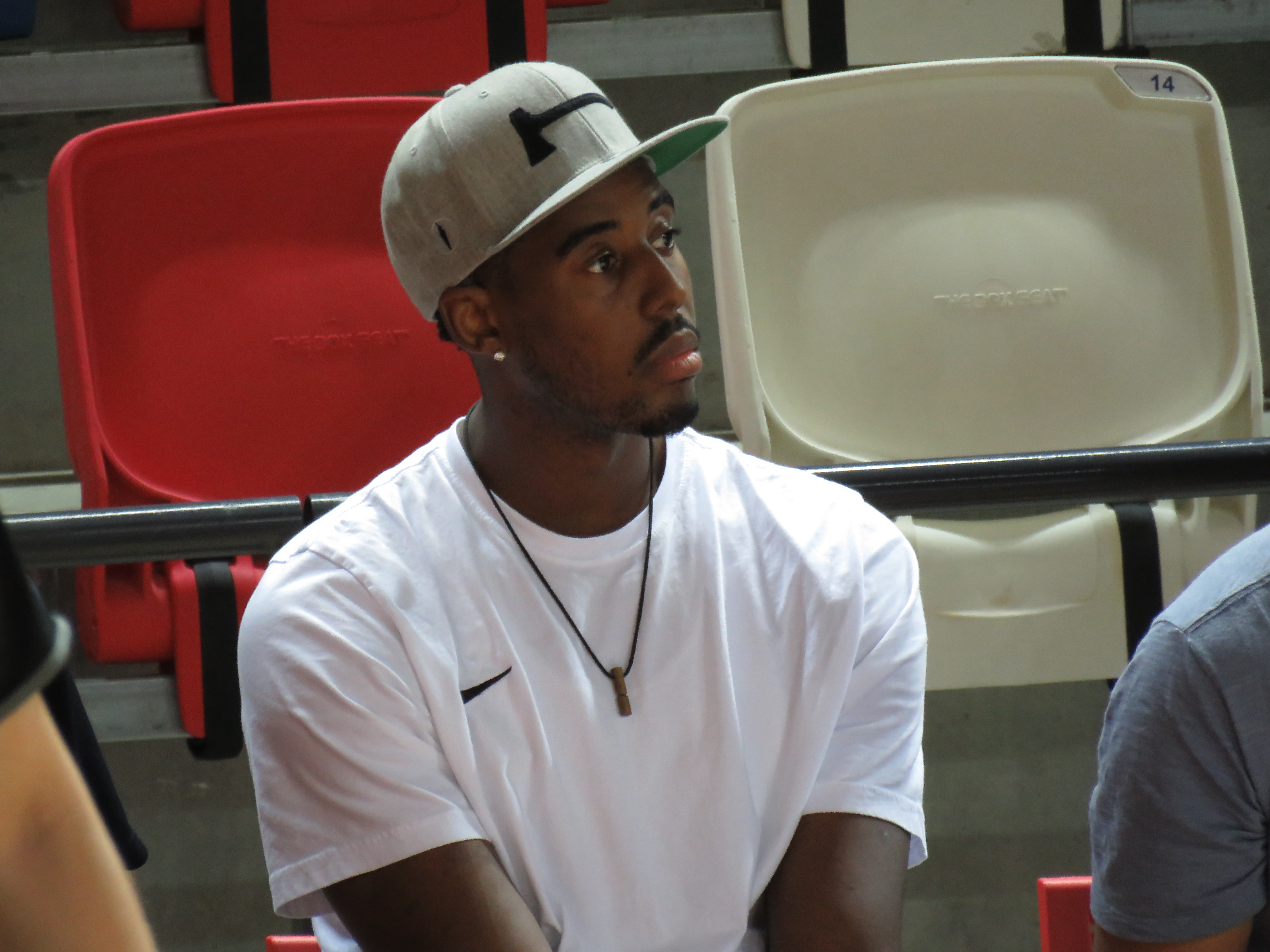 Category:Hapoel Tel Aviv vs. Hapoel Eilat - Pre-season friendly, Septeber 11, 2015